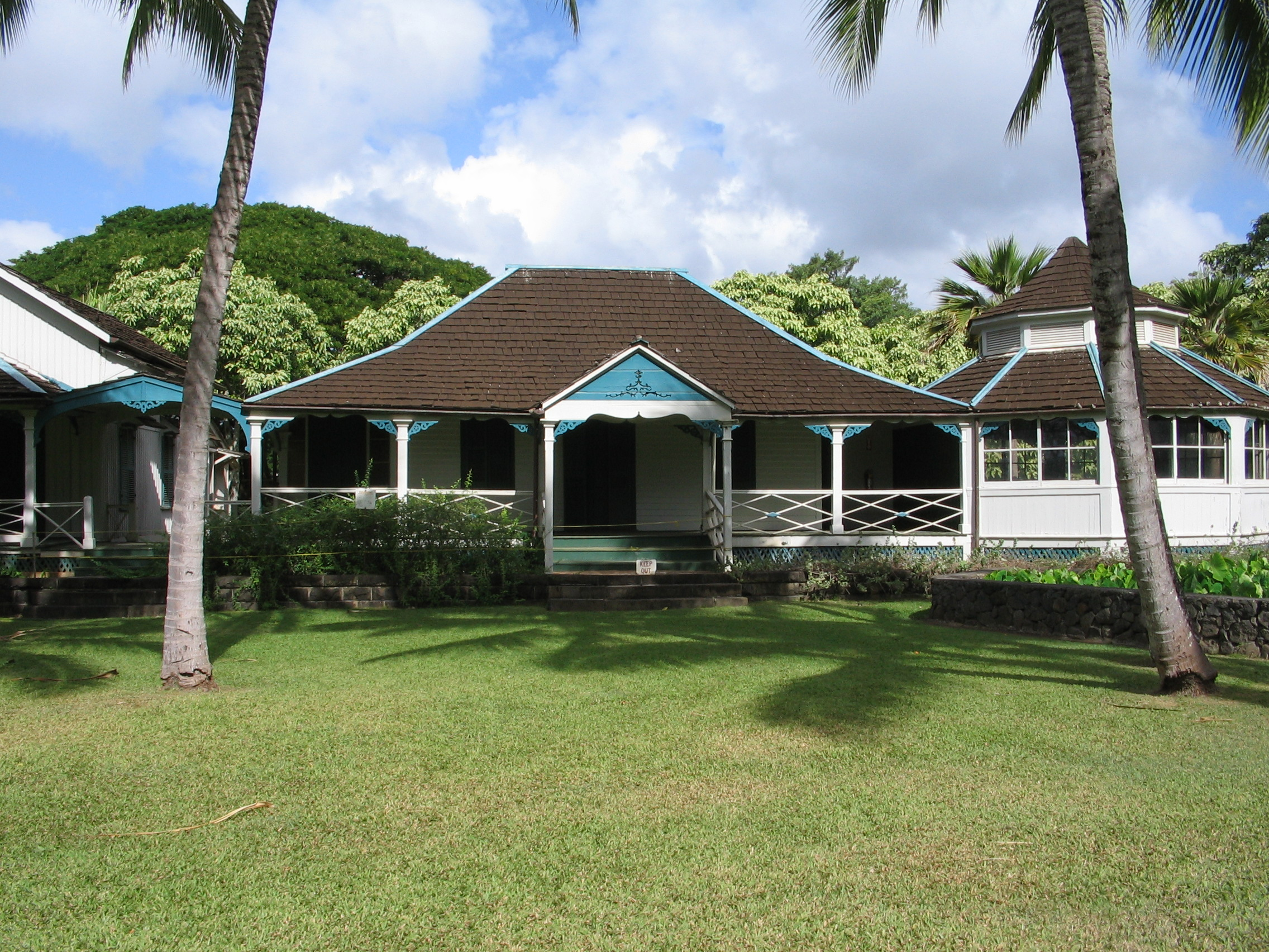 Taken by myself on January 8, 2006 at Moanalua Gardens in Honolulu, HI. GFDL-CC dual license.